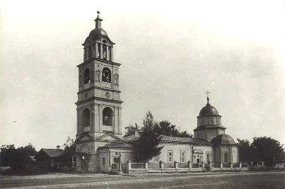 Church of snt Varavara in Kazan (before reconstruction of 1901-07)